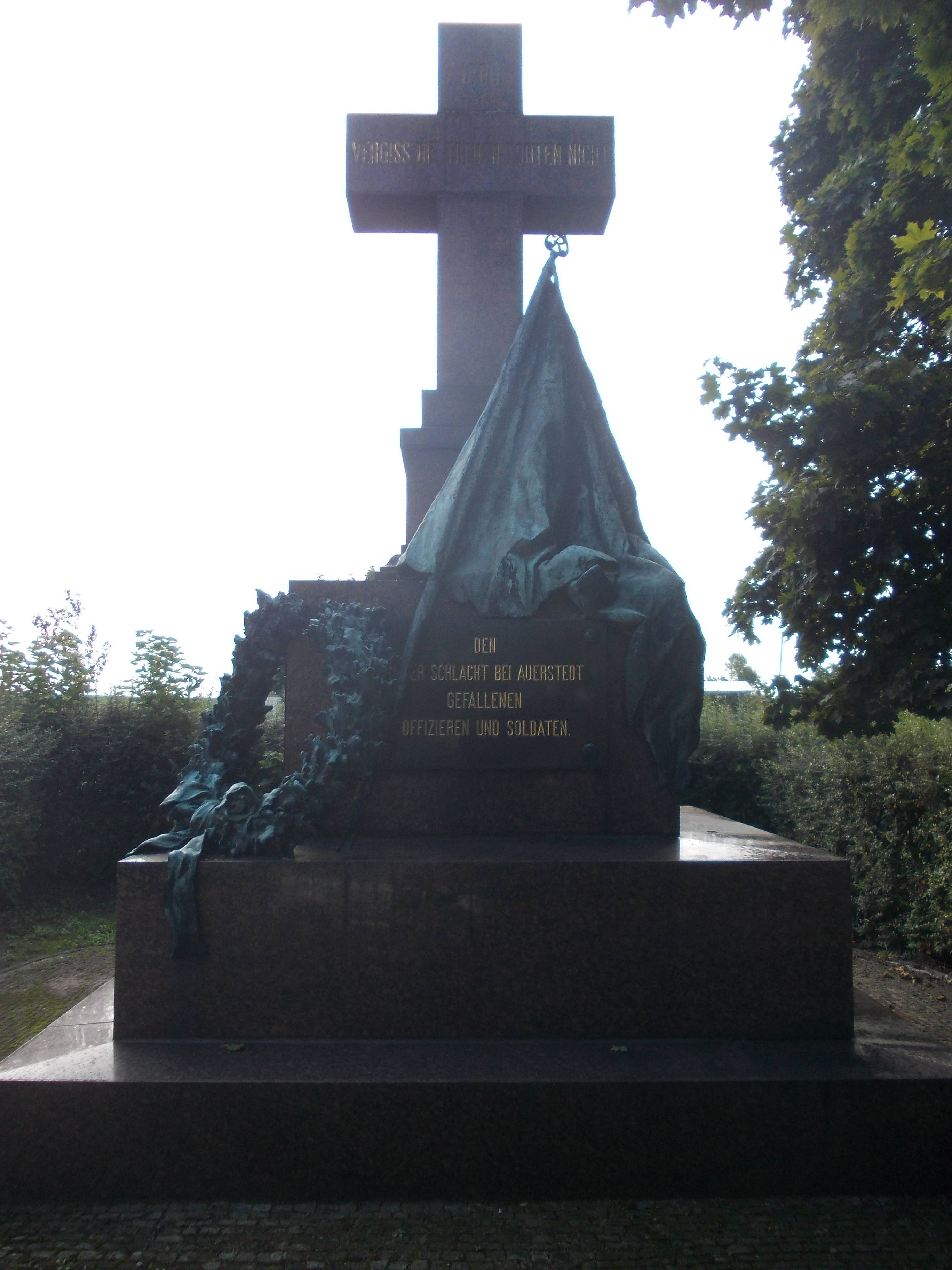 Memorial to the fallen of Battle of Auerstedt in Hassenhausen (Naumburg, district: Burgenlandkreis, Saxony-Anhalt)